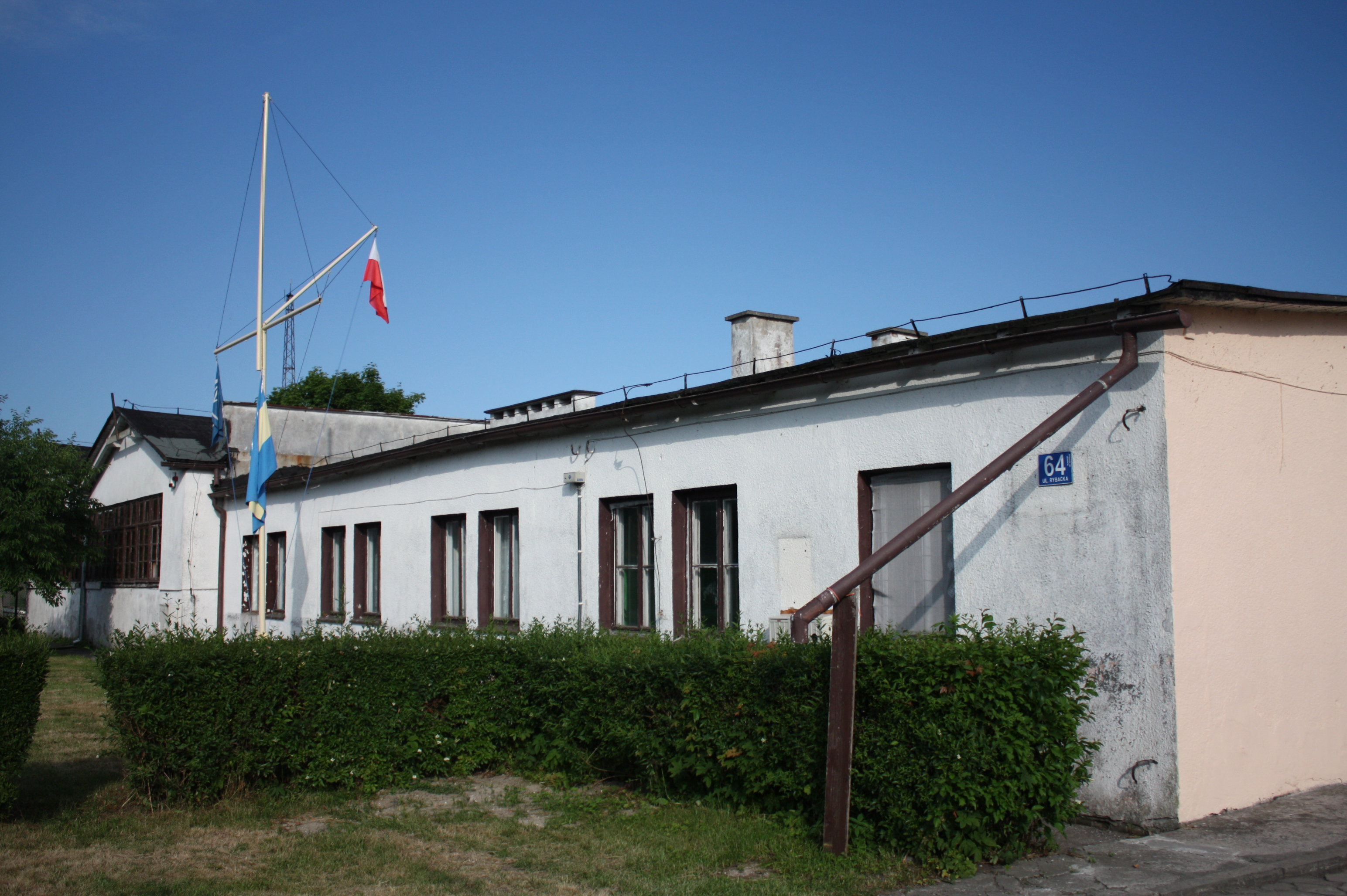 Kąty Rybackie, Vistula Lagoon Museum